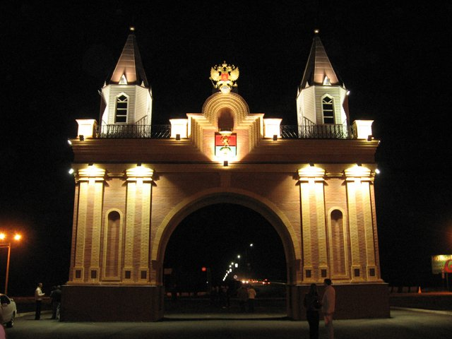 Arka-Kansk